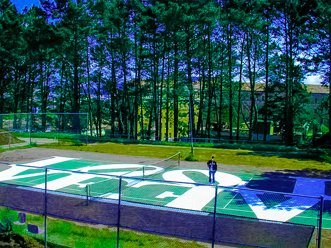 This version of Robert Indiana's Love sculpture was painted on a tennis court by artist, Erik Seidenglanz with the aid of Dain Johnson. The sculpture sits above the Nike Nuclear Missile Site SF-89L behind the abandoned Public Health Service Hospital in the Presidio, San Francisco, California.